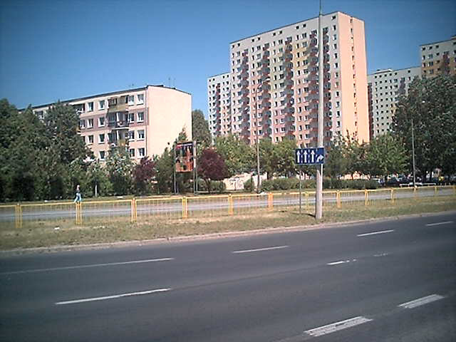 Winogrady - Osiedle Wichrowe Wzgórze seen from Aleje Solidarności by Zbihniew; GNU FDL